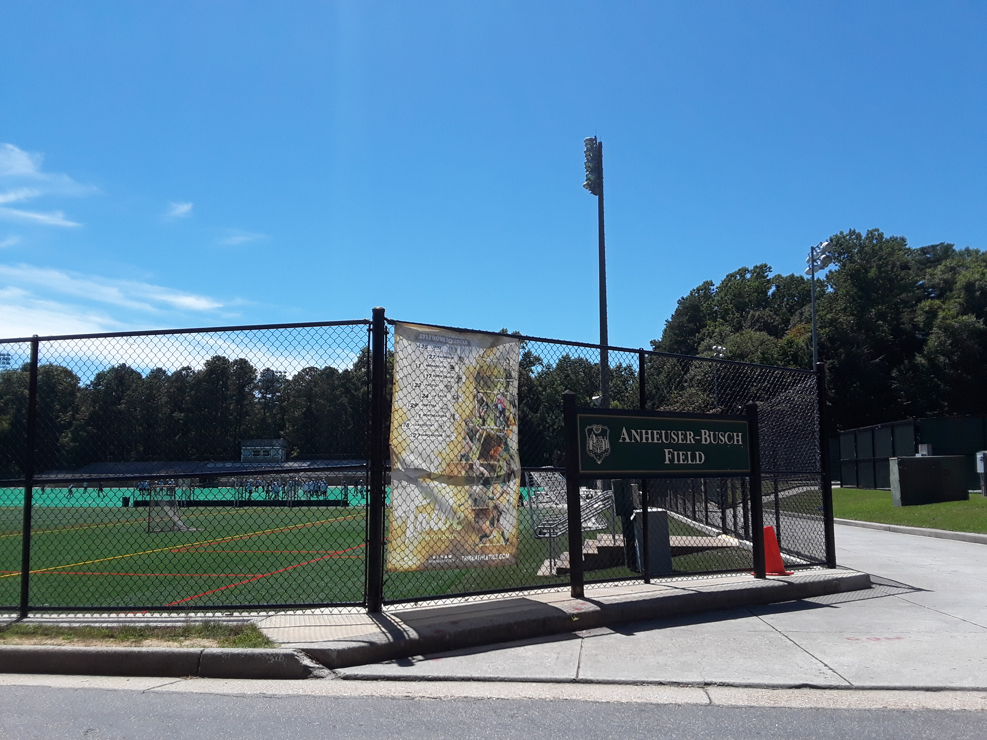 College of William & Mary, Williamsburg, Virginia